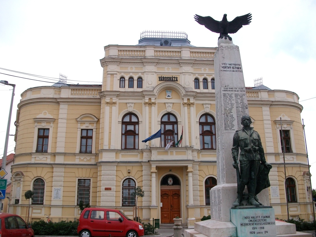 Town hall of Mezőberény, Hungary This is a photo of a monument in Hungary. Identifier: -15410